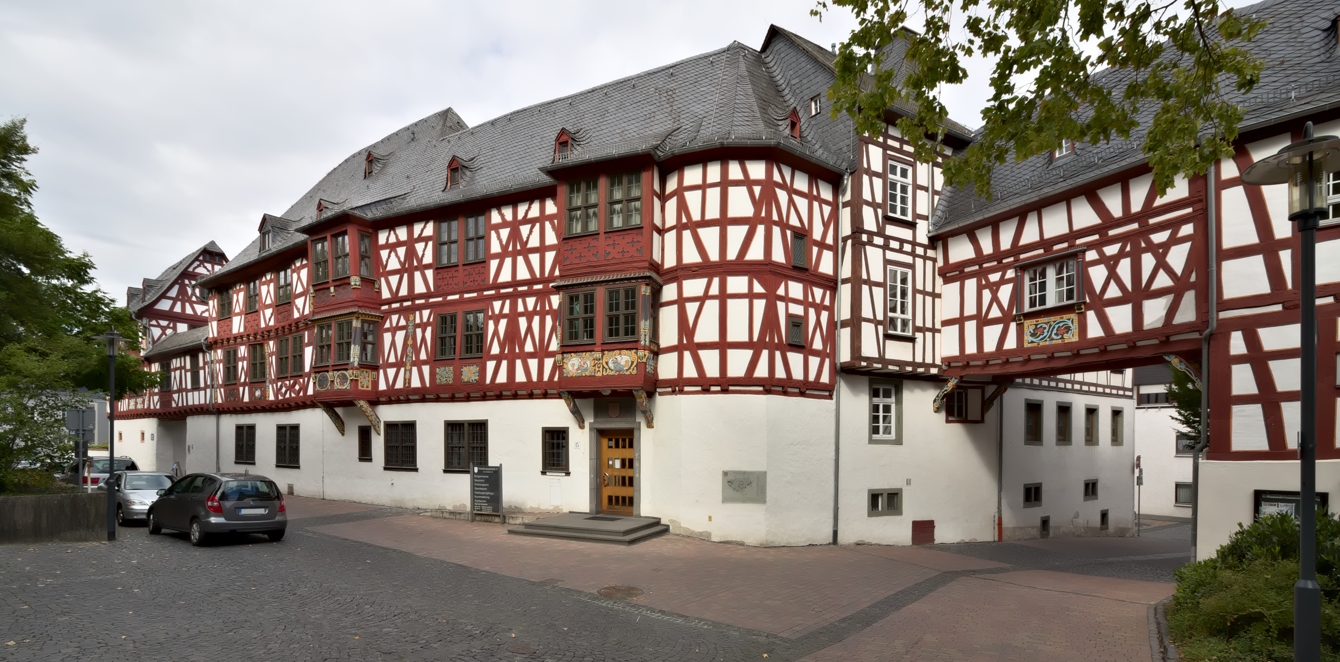 The former "Amthof" at Bad Camberg, view from eastern direction. Bad Camberg, Taunus, Germany.)